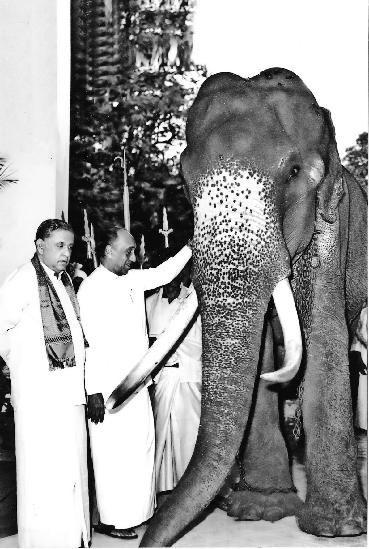 Photograph of Raja (elephant) with Hon J.R Jayewardene & Dr. Nissanka Wijeyeratne